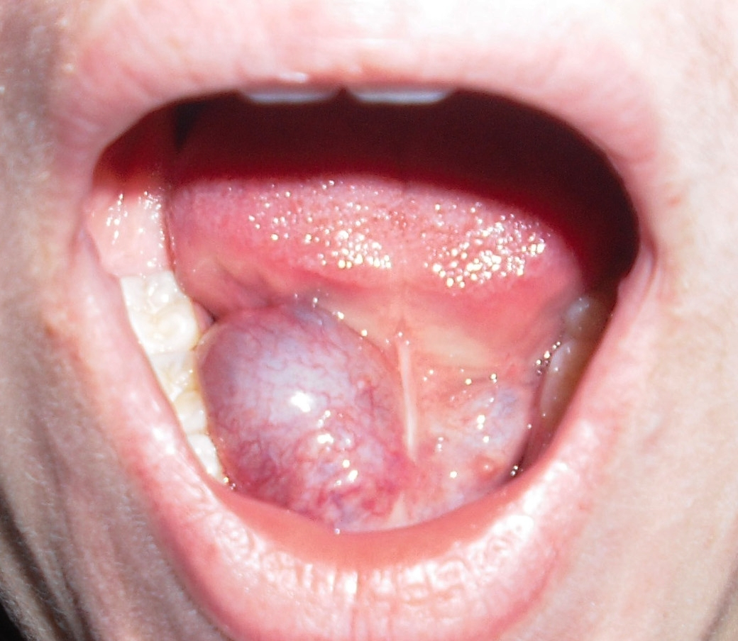 Ranula in a human